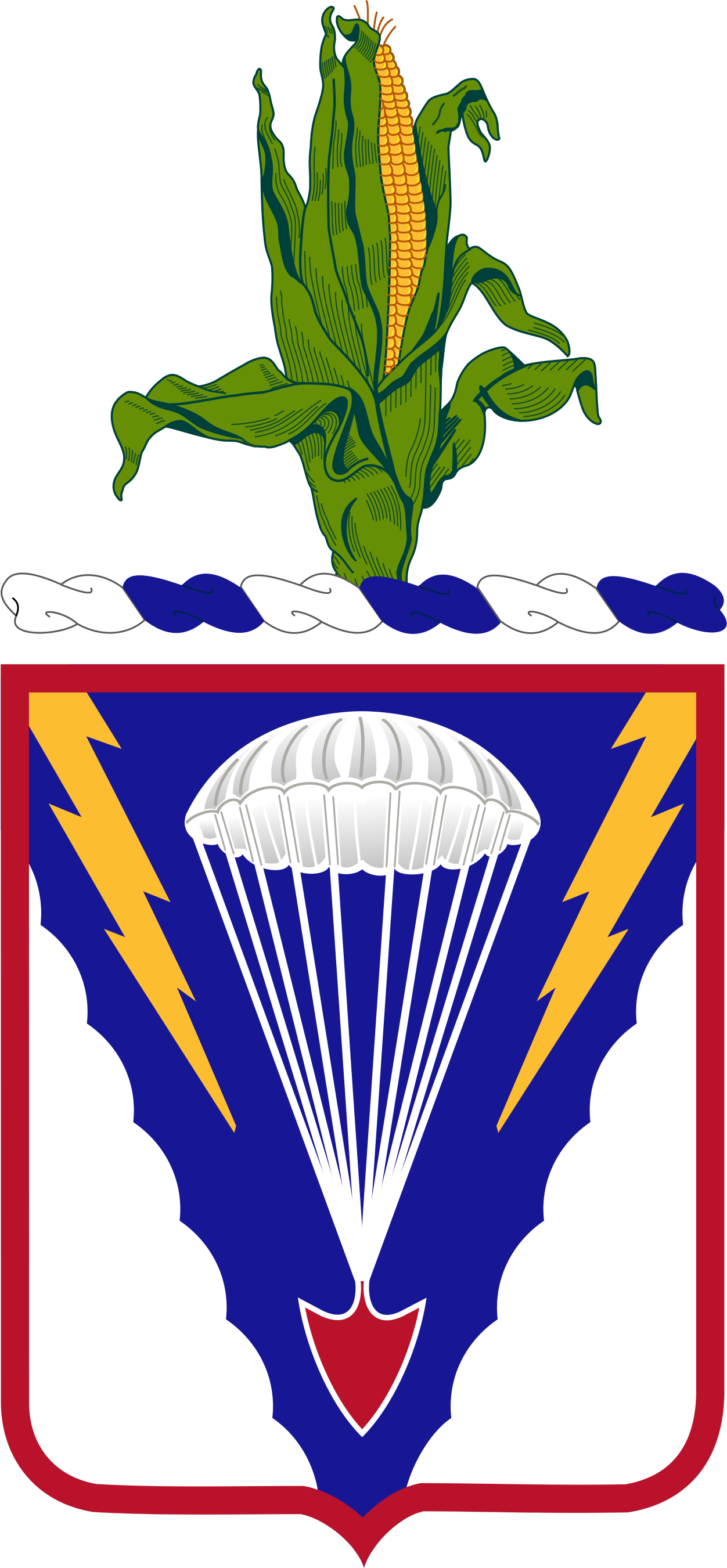 134th Infantry Regiment (Airborne) Coat of Arms